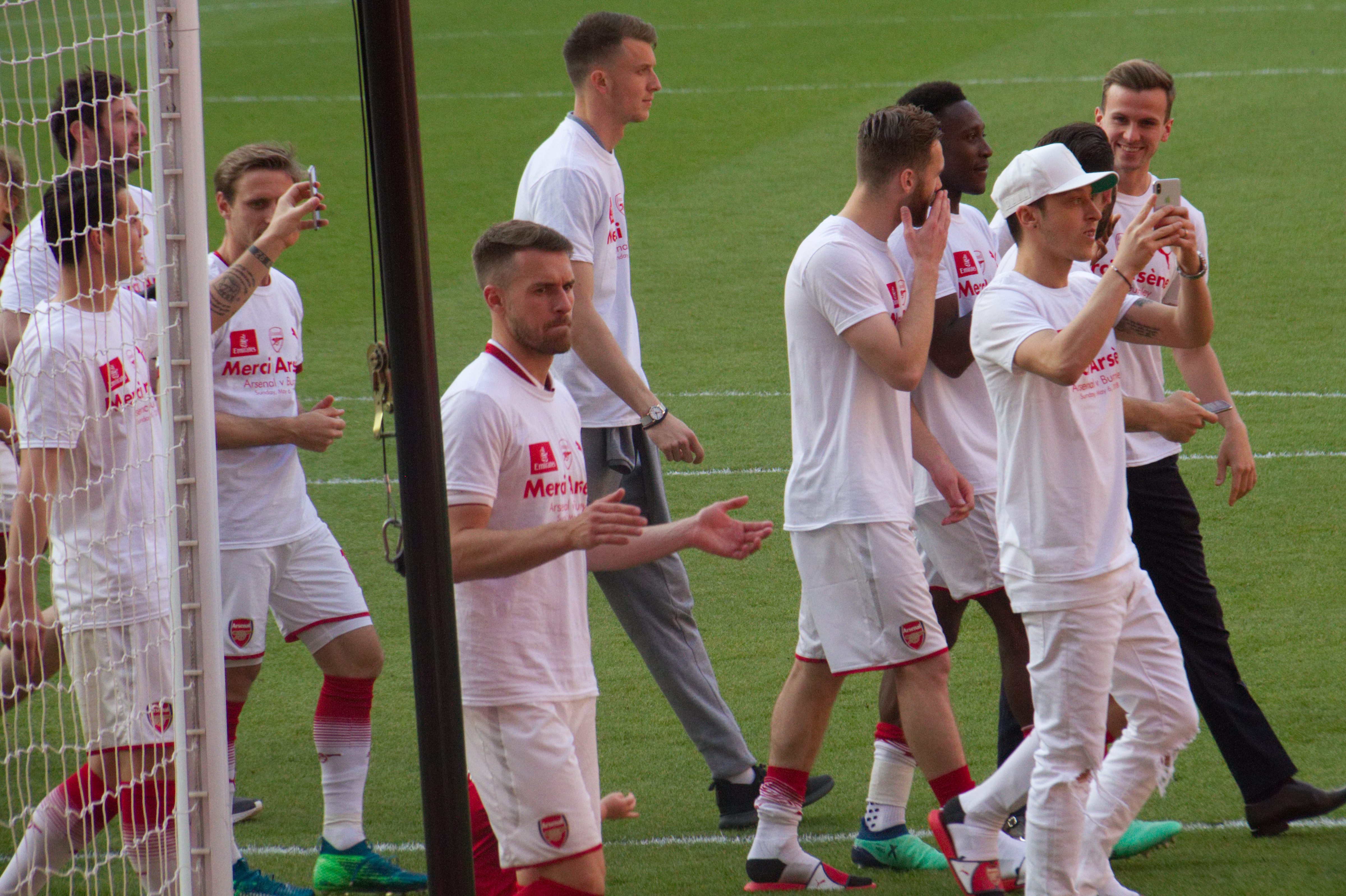 48 Merci Arsène - Lap of Appreciation